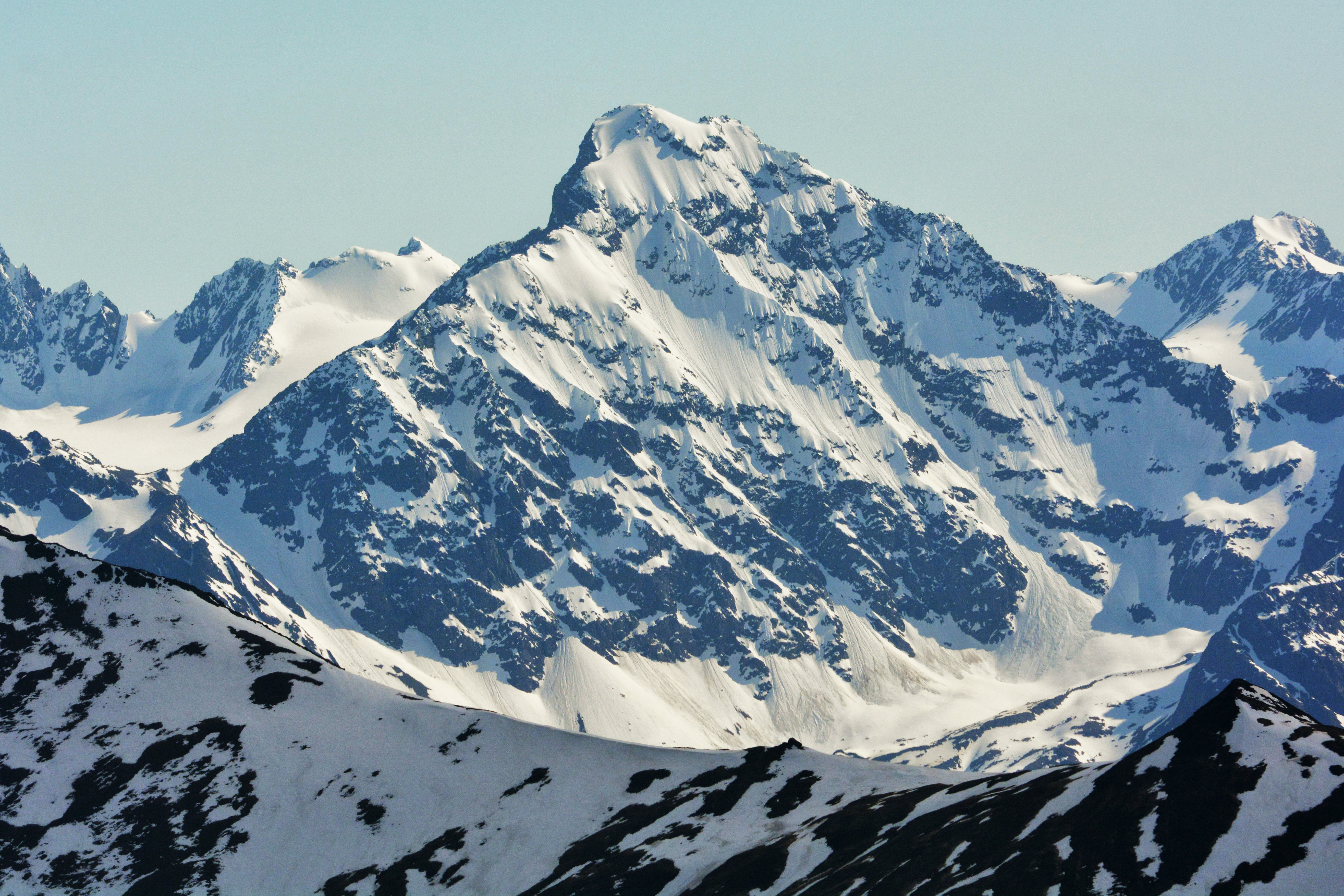 Eagle Peak, shot from the summit of Peters Creek Peak 5505. Note that the location marker is placed on top of Peak 5505, *not* on Eagle Peak itself.